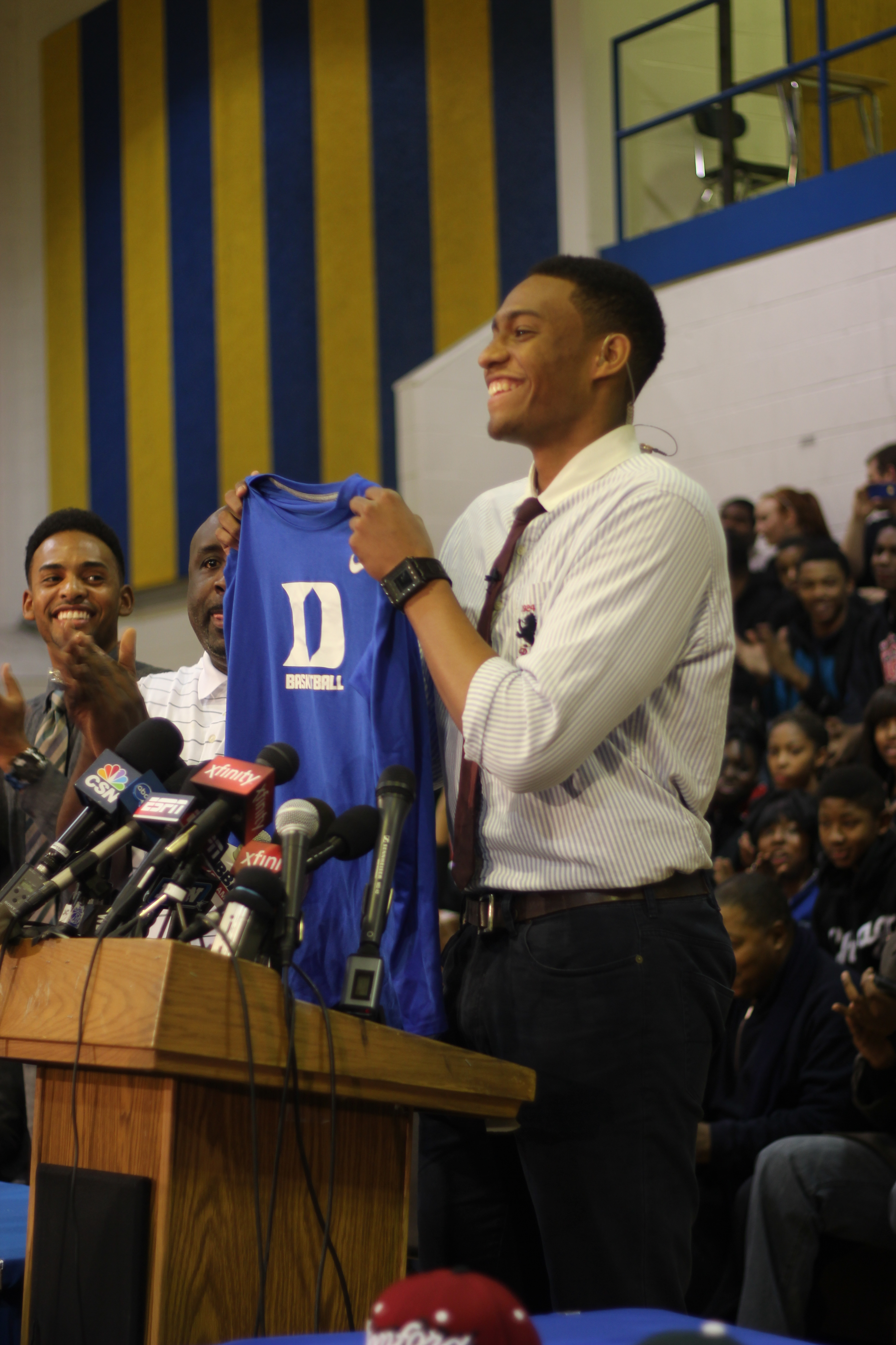 Jabari Parker with Duke Blue Devils men's basketball shirt